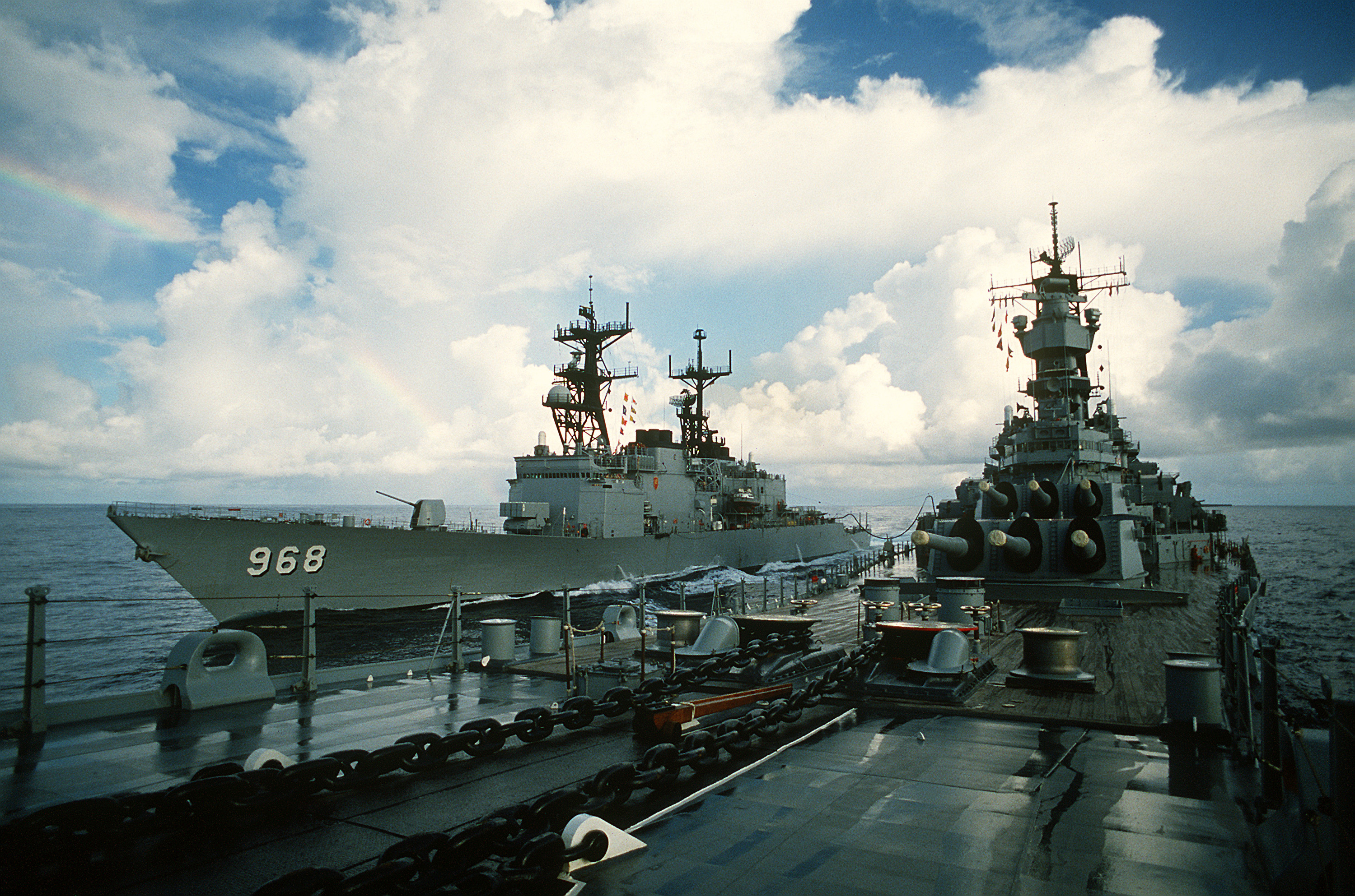 The destroyer USS ARTHUR W. RADFORD (DD-968) participates in an underway replenishment with the battleship USS IOWA (BB-61), 11/1/1984, Atlantic Ocean.